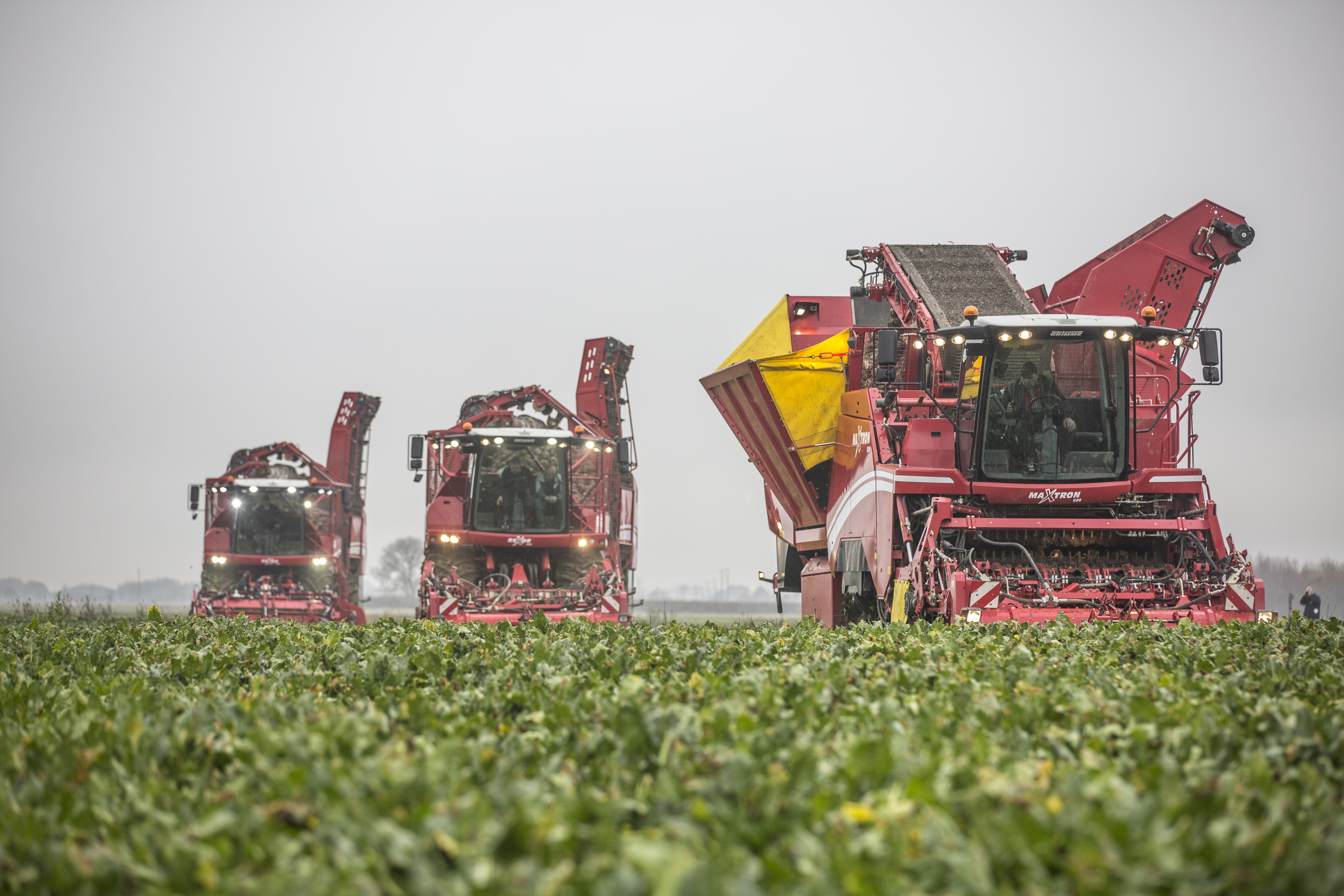 MAXTRON 620, REXOR 620 with Oppel wheels and with walking shares working under very wet conditions.